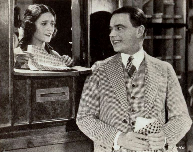 Still from the American drama film The Home Stretch (1921) with Beatrice Burnham and Douglas MacLean, on page 68 of the April 30, 1921 Exhibitors Herald.